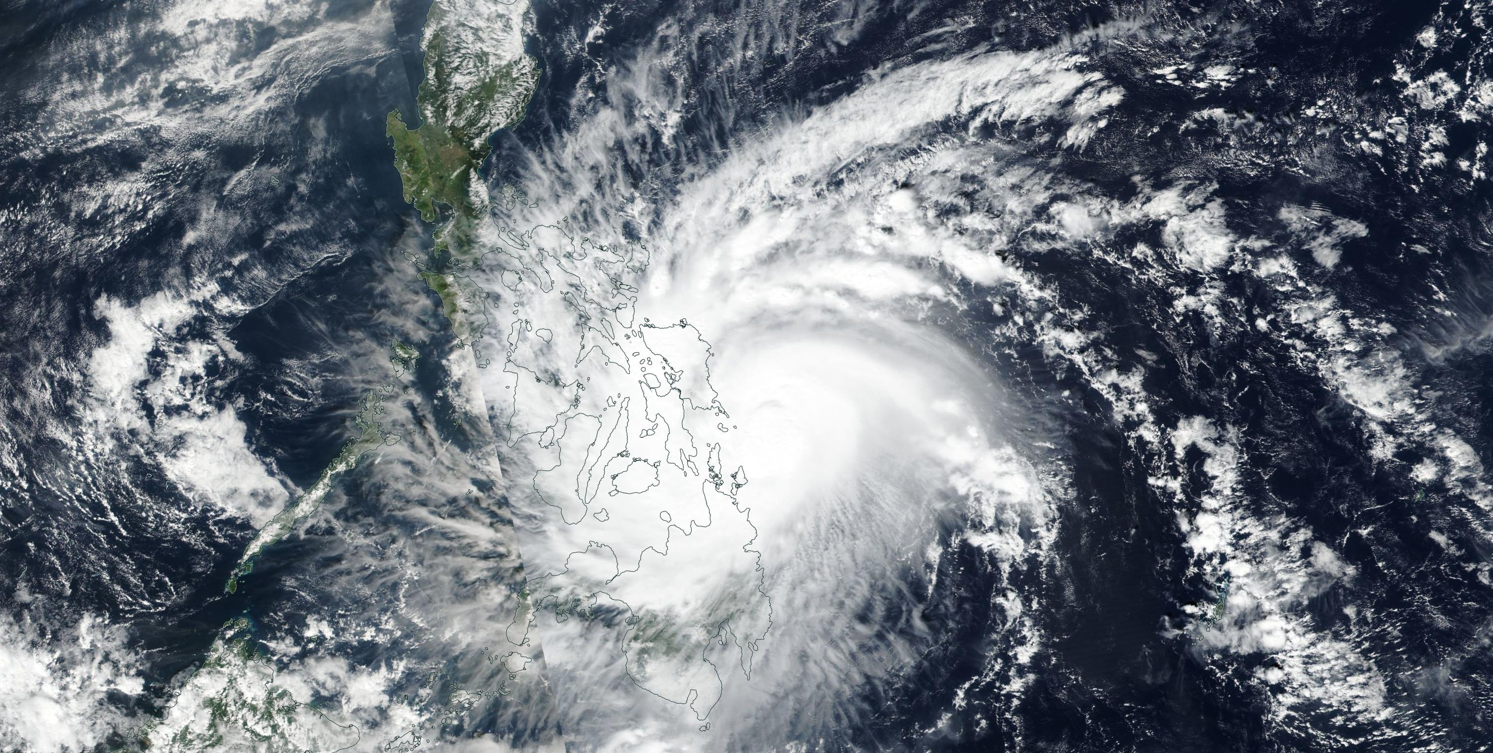 Phanfone making landfall on the Eastern Visayas on December 24